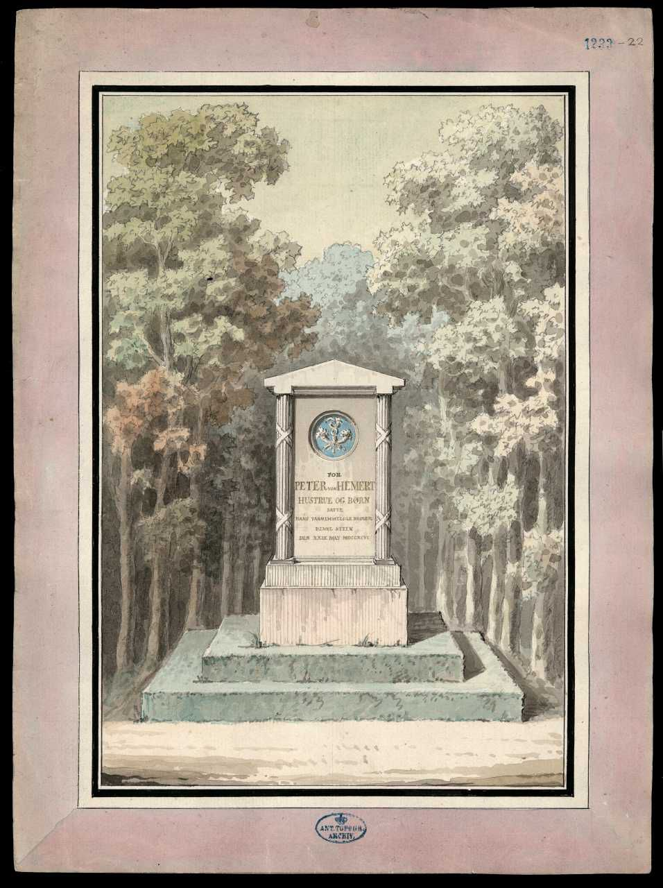 Peter van Hemert's grave on Assistens kirkegård in Copenhagen, Denmark